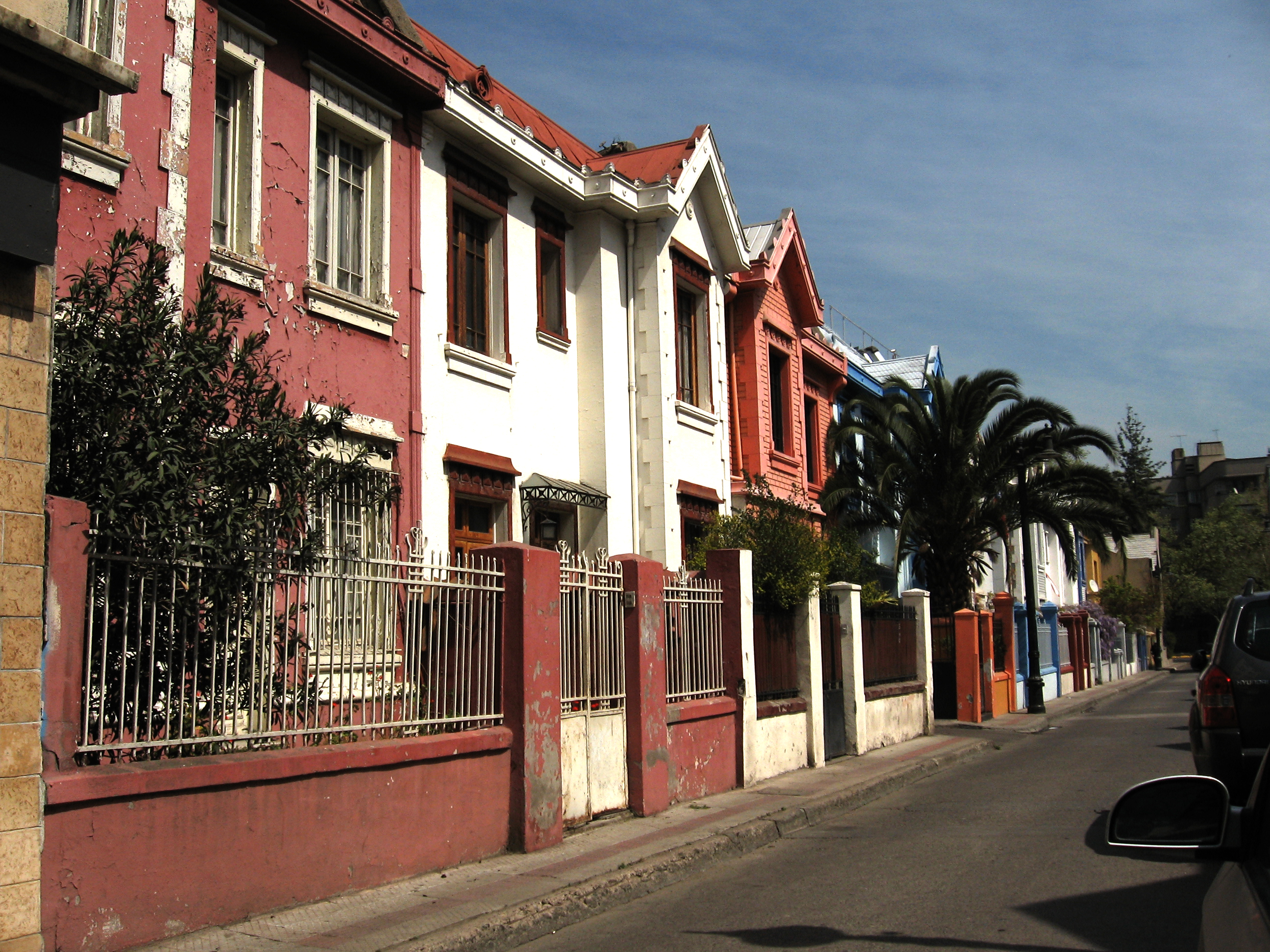 This is a photo of a national monument in Chile: 420